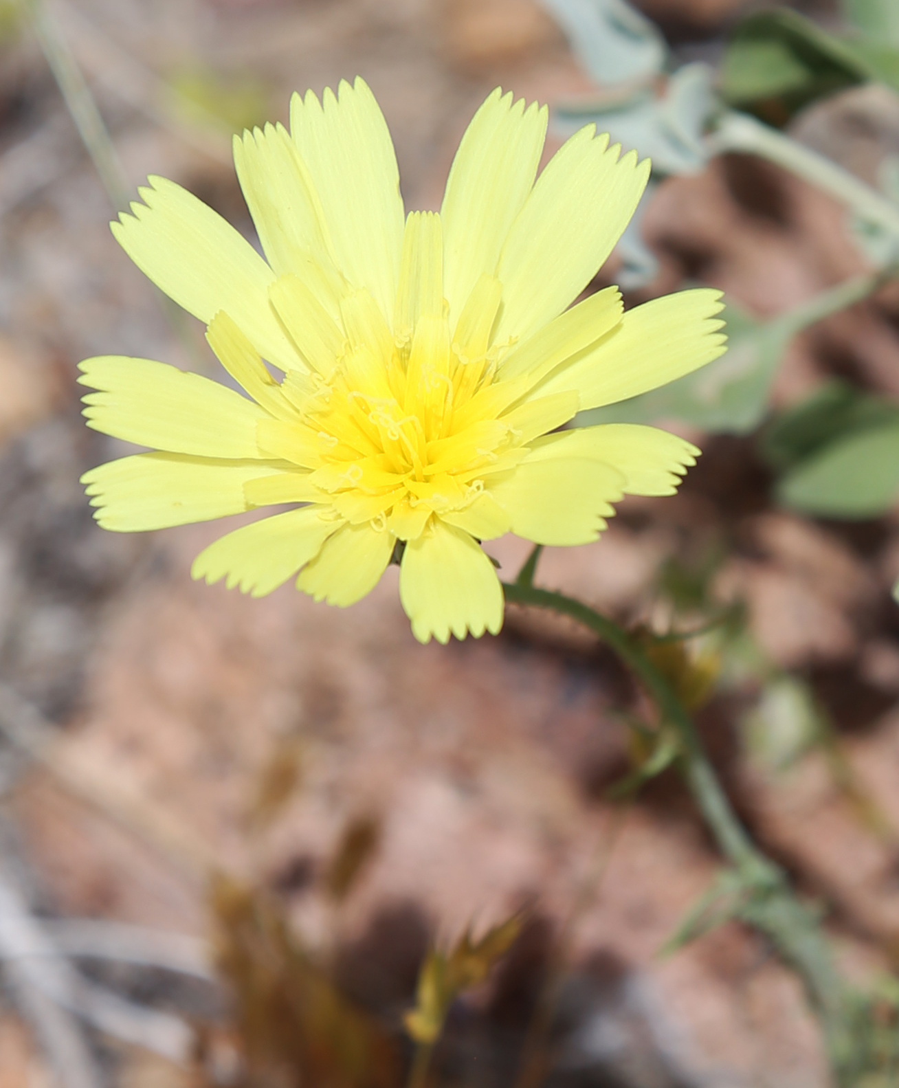 Anisocoma acaulis (Scale bud) flowerhead closeup, showing squarish, "pinked" ends on the pale yellow ray flowers. Mono County, California, between Paradise and Swall Meadows, in the Eastern Sierra Nevadda at about 5500 ft.